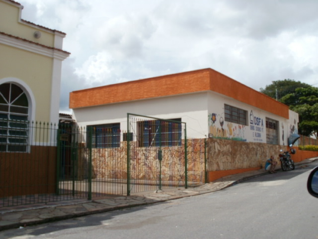 View of Santa Cruz de Minas city, in Minas Gerais state, Brazil.